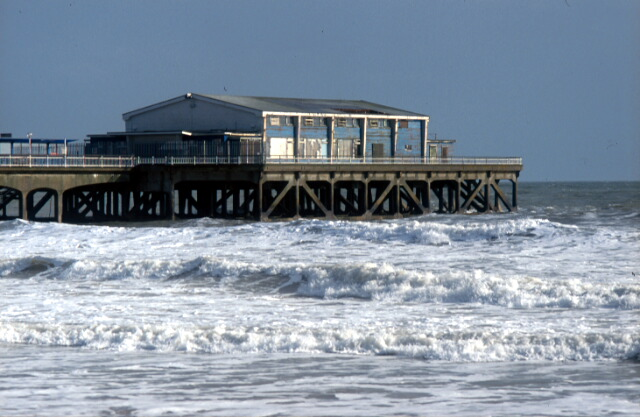 Boscombe pier Rough sea today around the pier...